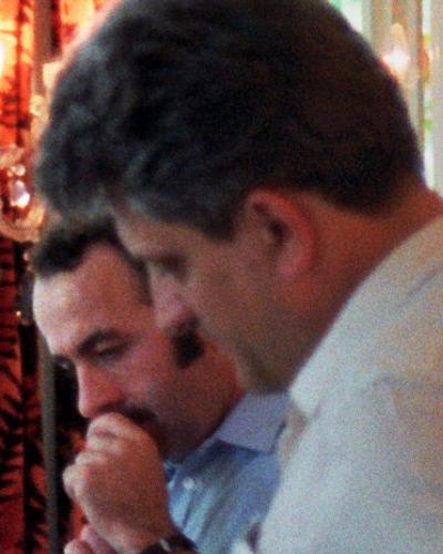 Janos Flesch (right), 1982 at the International Chess Tournament in Linz (Austria), Photographer Gerhard Hund.